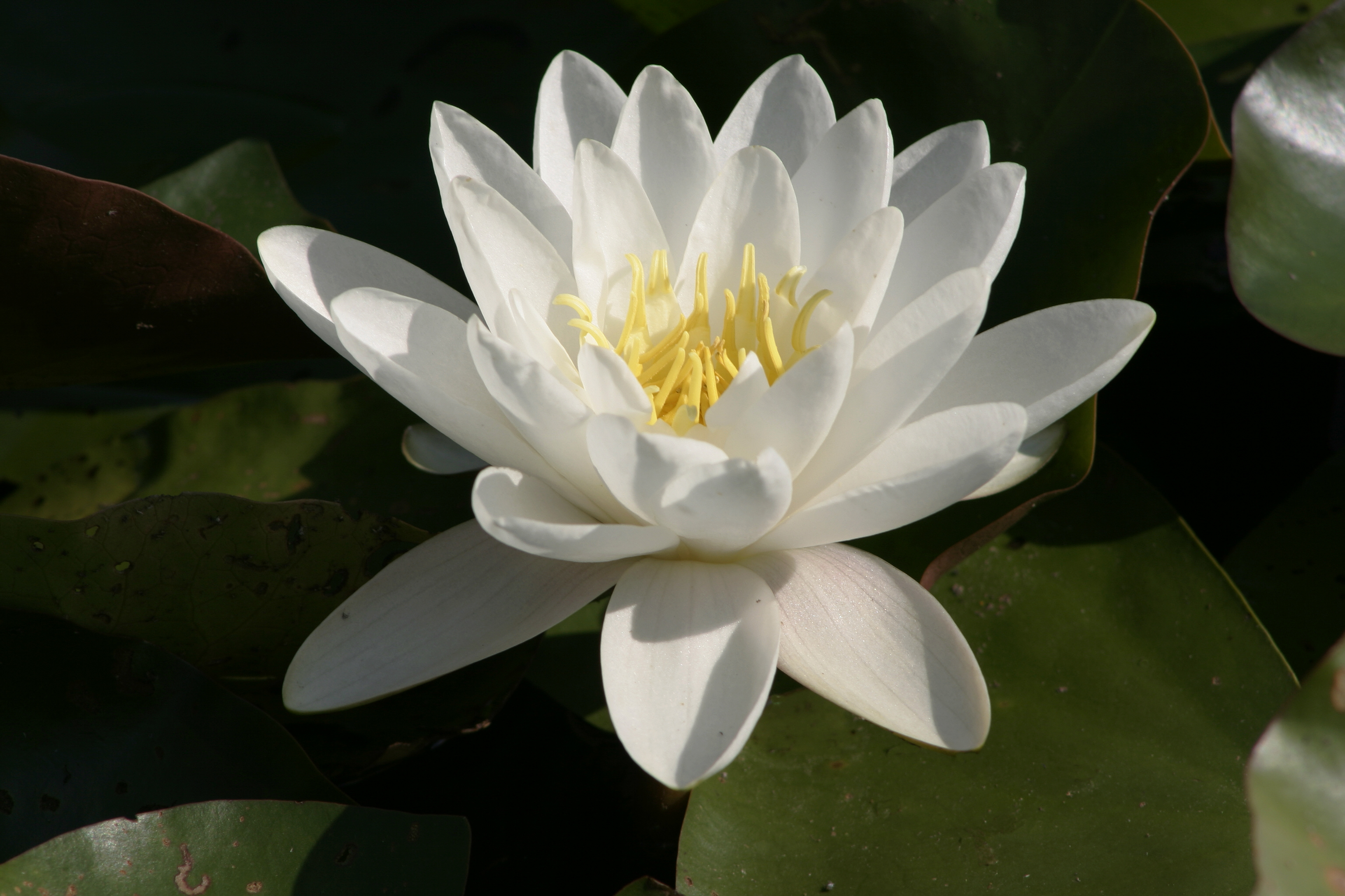 Water lily